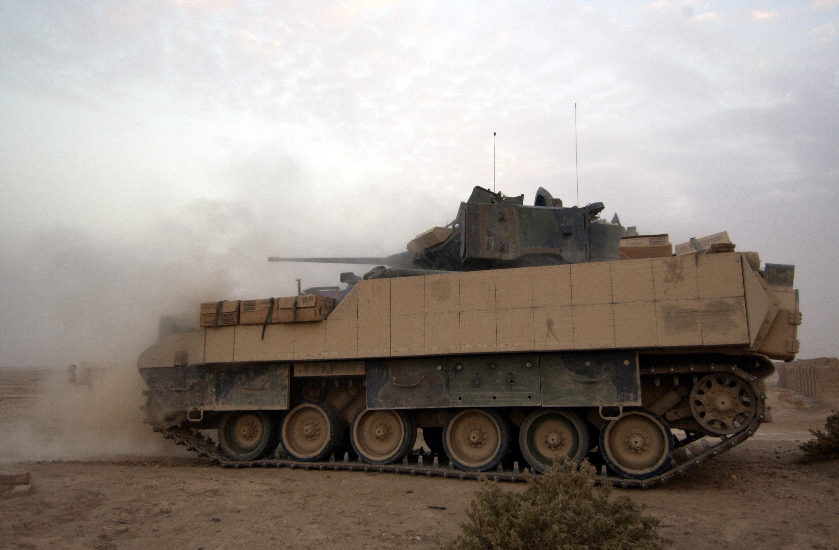 A U.S. Army M3A3 Bradley Cavalry Fighting Vehicle test fires its 25-millimeter chain gun while on a combat security patrol outside Ad Dwr, Iraq, on Nov. 17, 2004. The Bradley and its crew are assigned to Charlie Troop, 1st Battalion, 4th Cavalry Regiment, 1st Infantry Division.